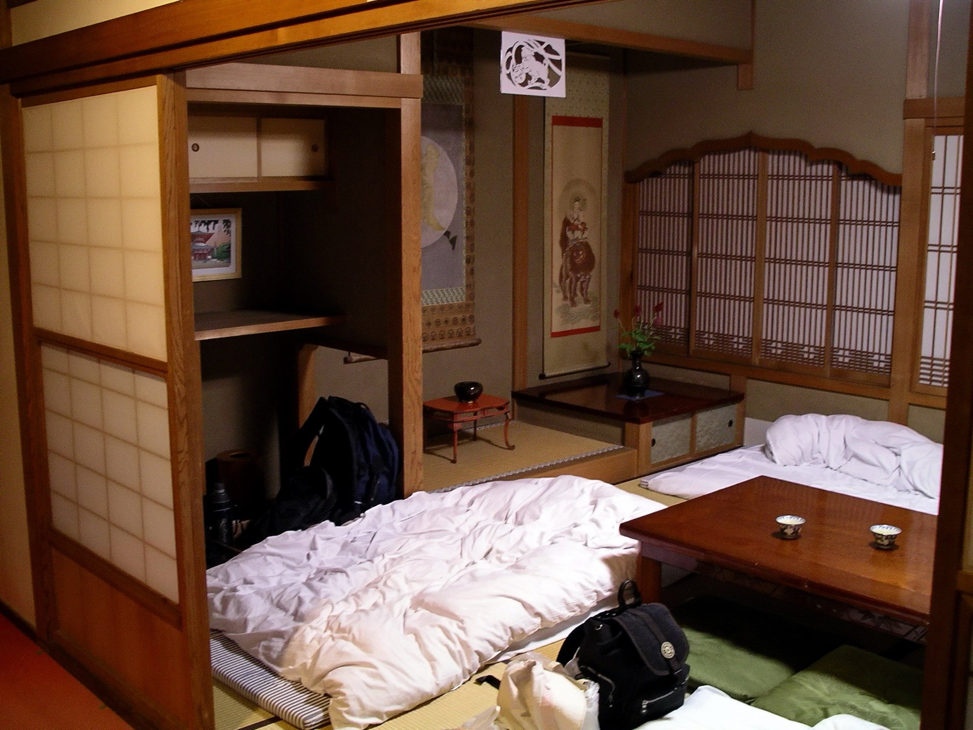 A typical Japanese room (washitsu) at the Koyasan Youth Hostel, Japan.